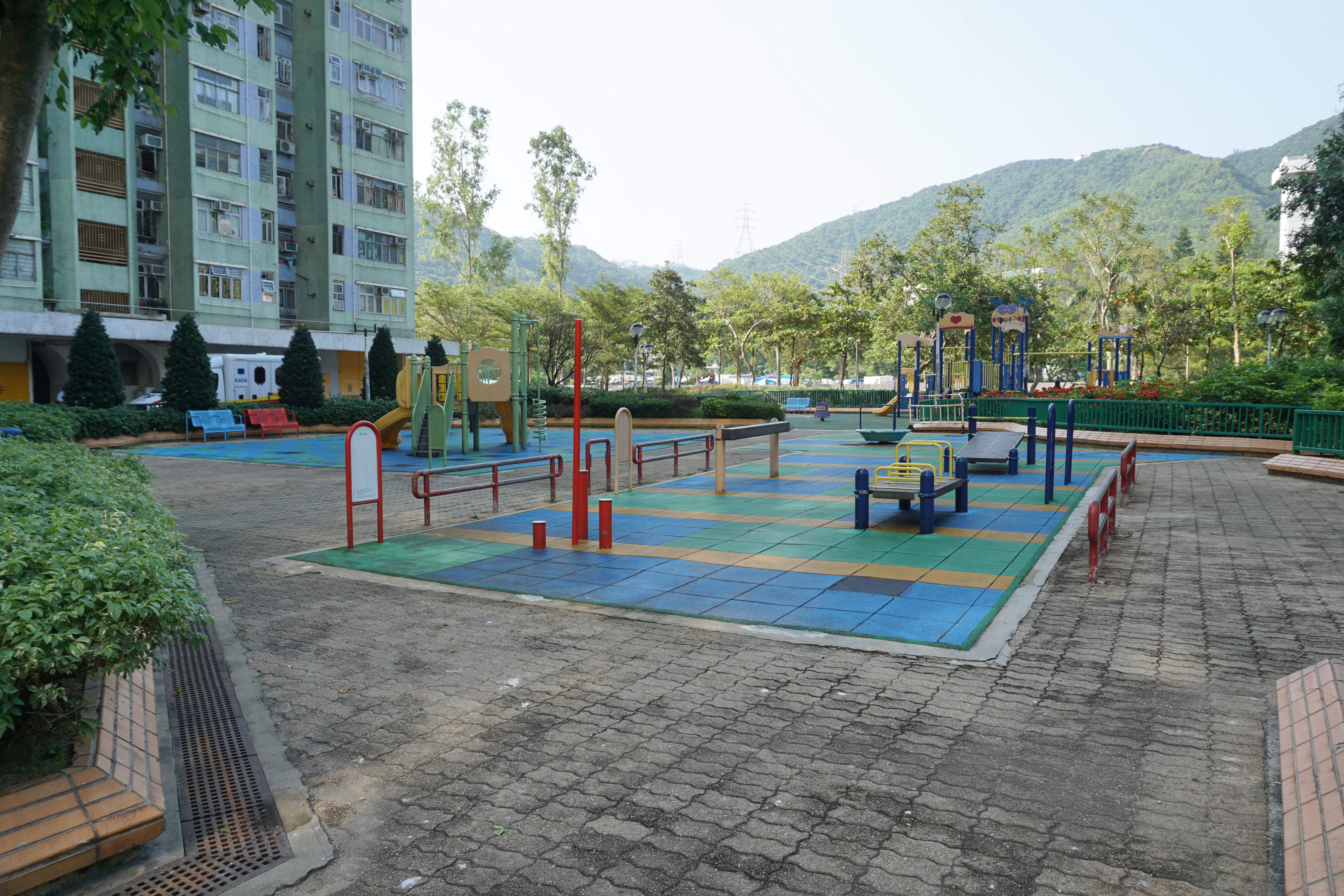 Po Lam Estate in Po Lam, Hong Kong.